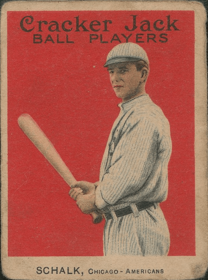 Ray Schalk Crackerjack card